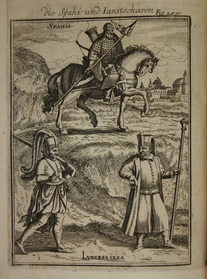 View of Turkish soldiers, Description de L'Universe (Alain Manesson Mallet, 1685).jpg